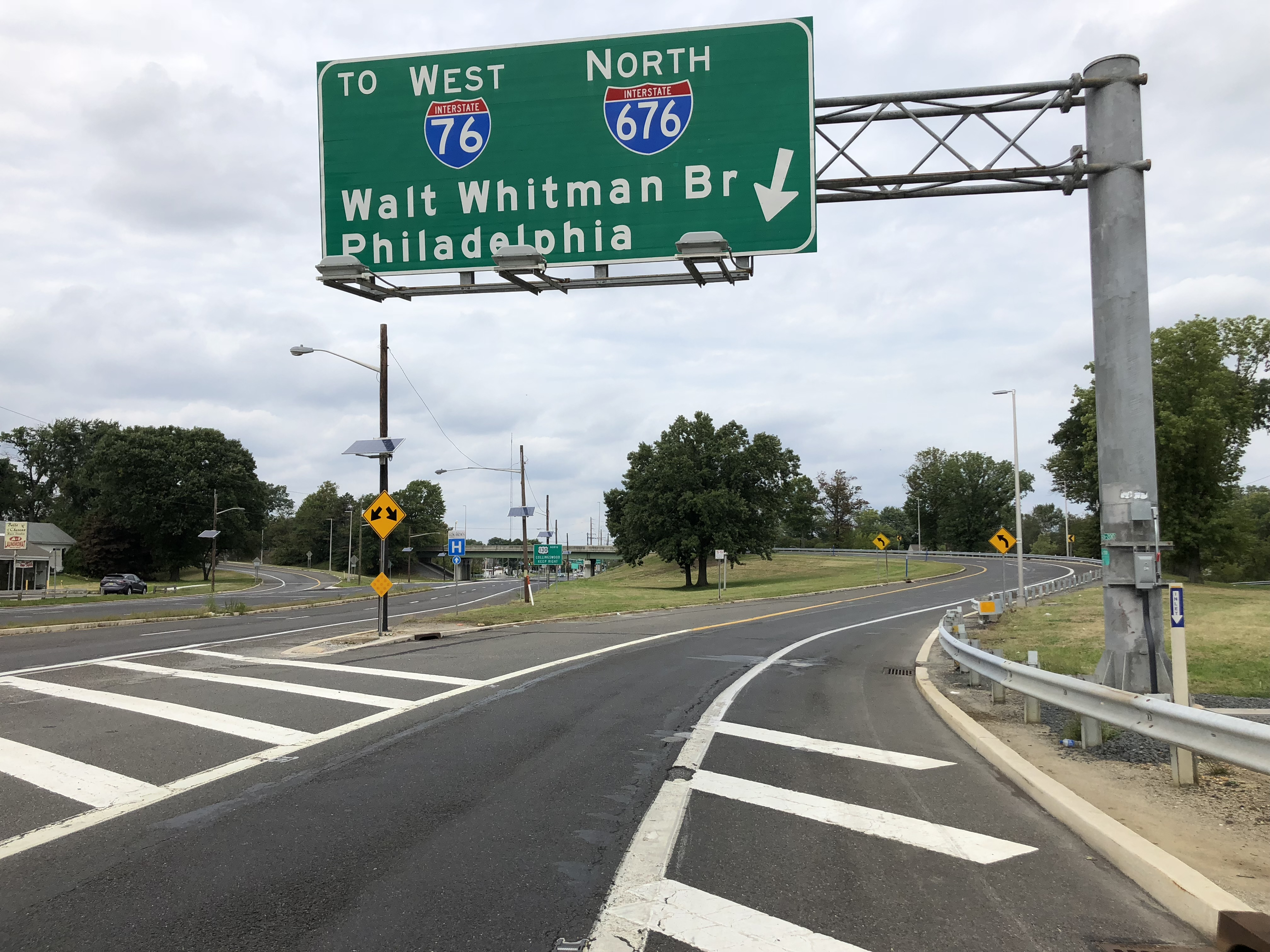 View west along New Jersey State Route 76C (Walt Whitman Bridge Connector) at New Jersey State Route 168 (Black Horse Pike) along the border of Haddon Township and Audubon Park in Camden County, New Jersey